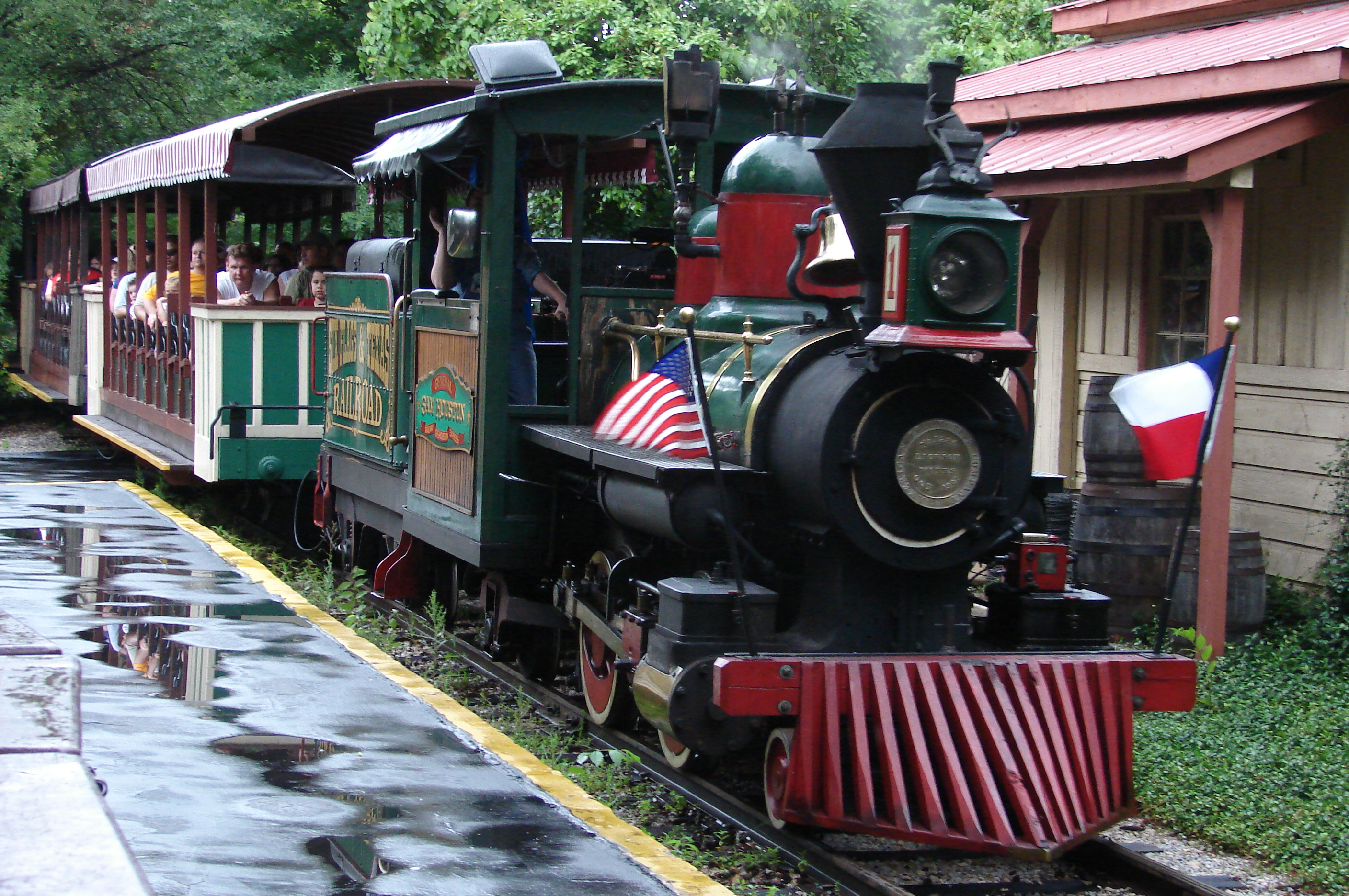 Six Flags Railroad train ride "General Sam Houston" at Six Flags Over Texas in Arlington, Texas